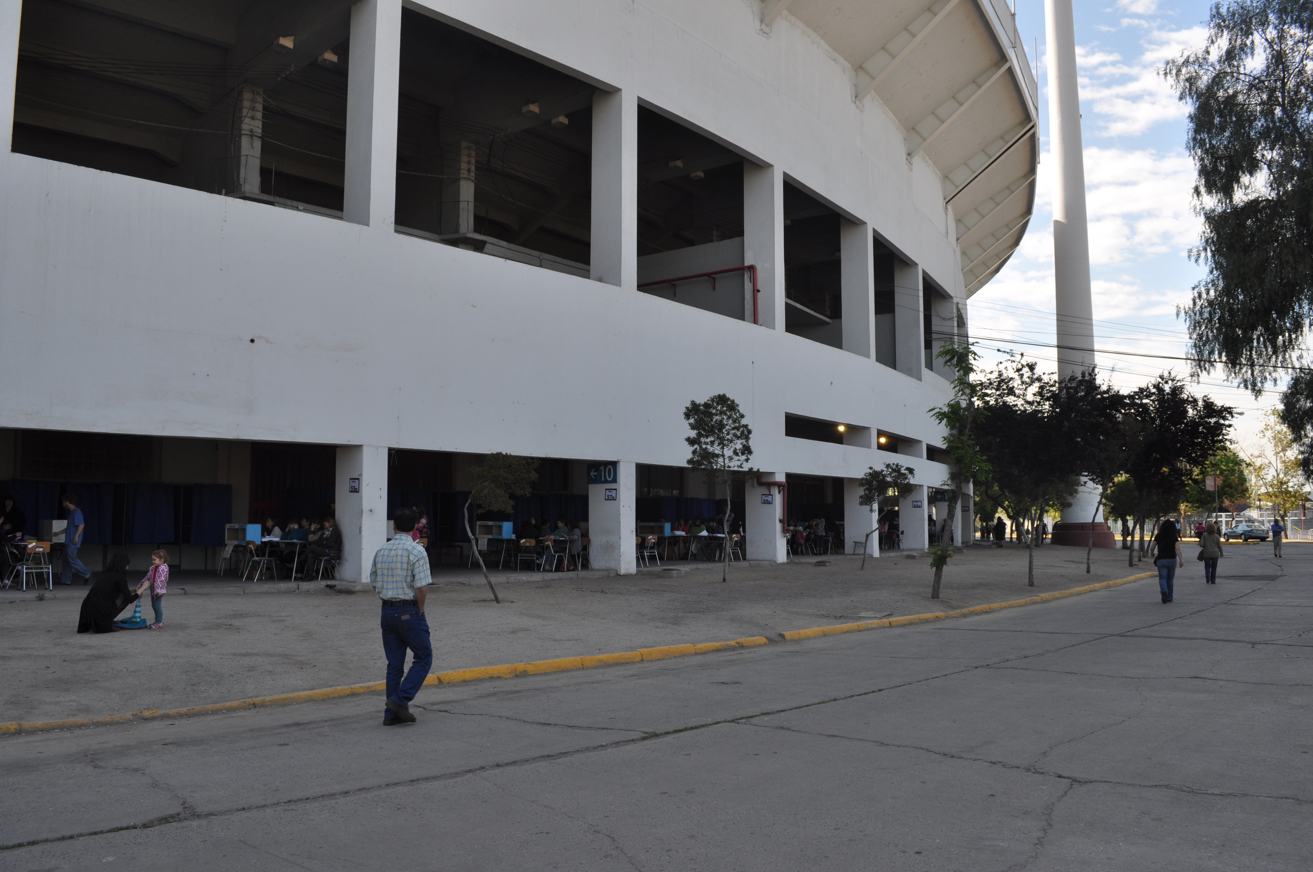 Mesas receptoras de sufragios con muy baja asistencia de electores. Estadio Nacional, Santiago de Chile